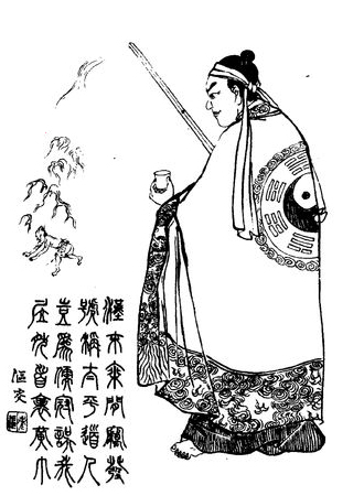 Qing dynasty portrait of Zhang Jue